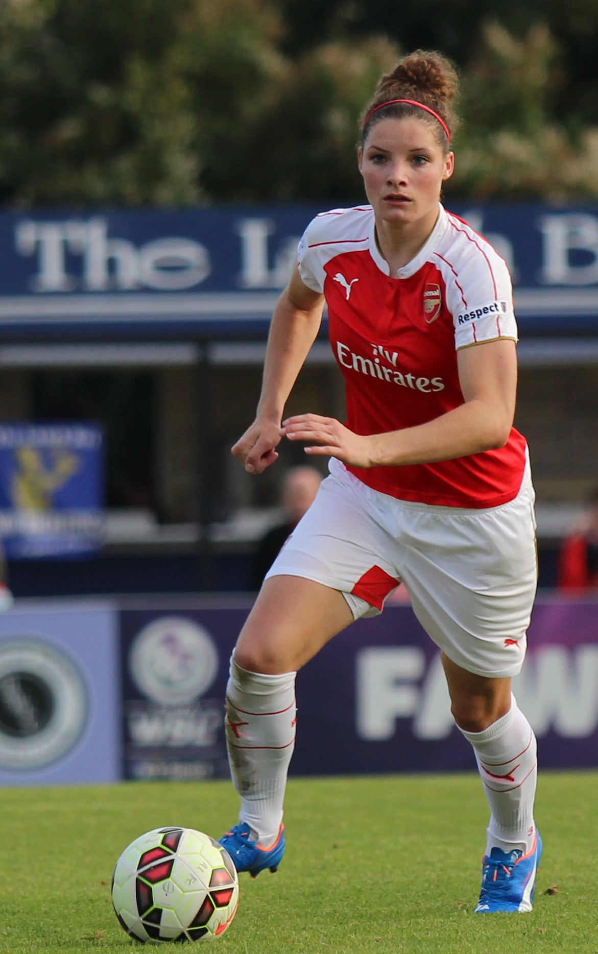 Dominique Janssen of Arsenal Ladies on the ball during the game against Birmingham.